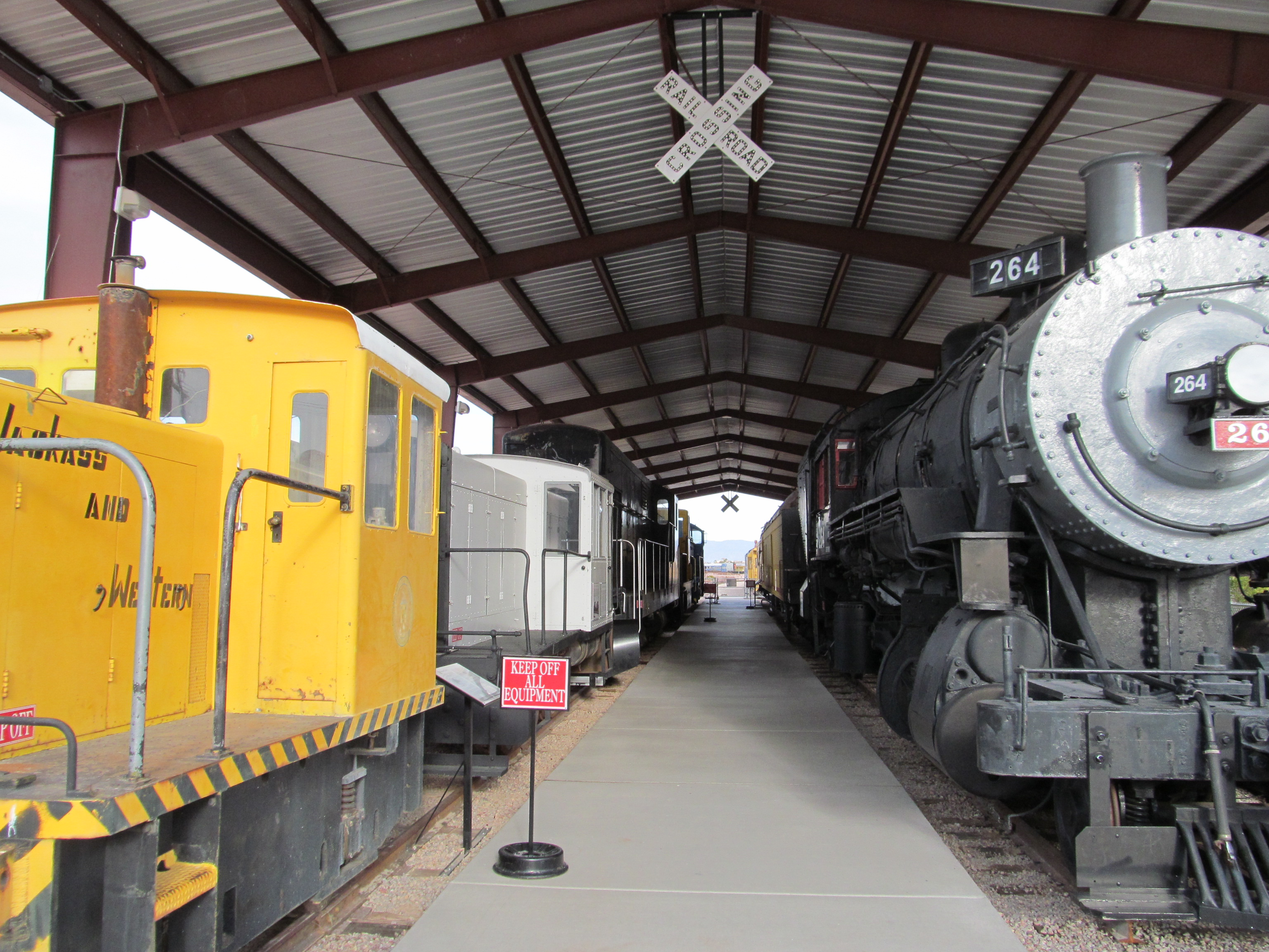 Nevada Southern Railroad Museum, Boulder City Nevada